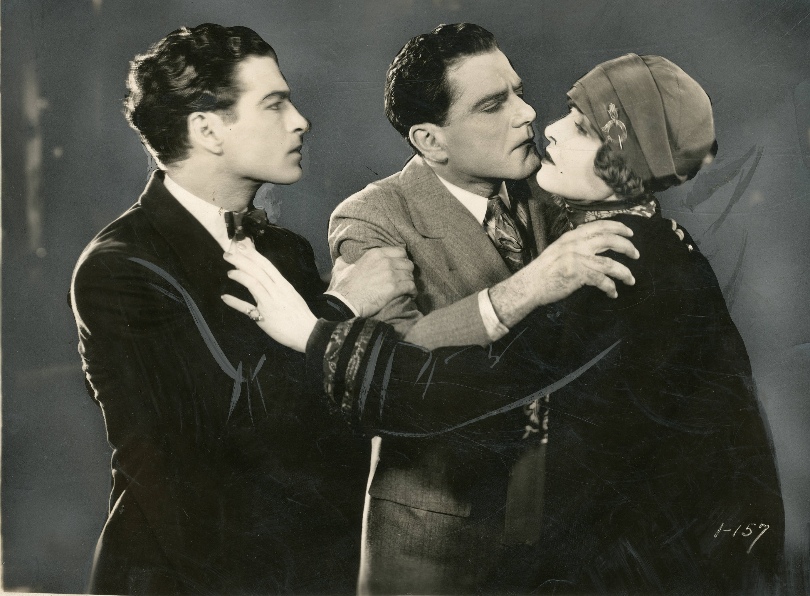 Still from the film Born Rich (1924) with Cullen Landis, Bert Lytell, and Claire Windsor. Subjects: motion pictures, actors, actresses